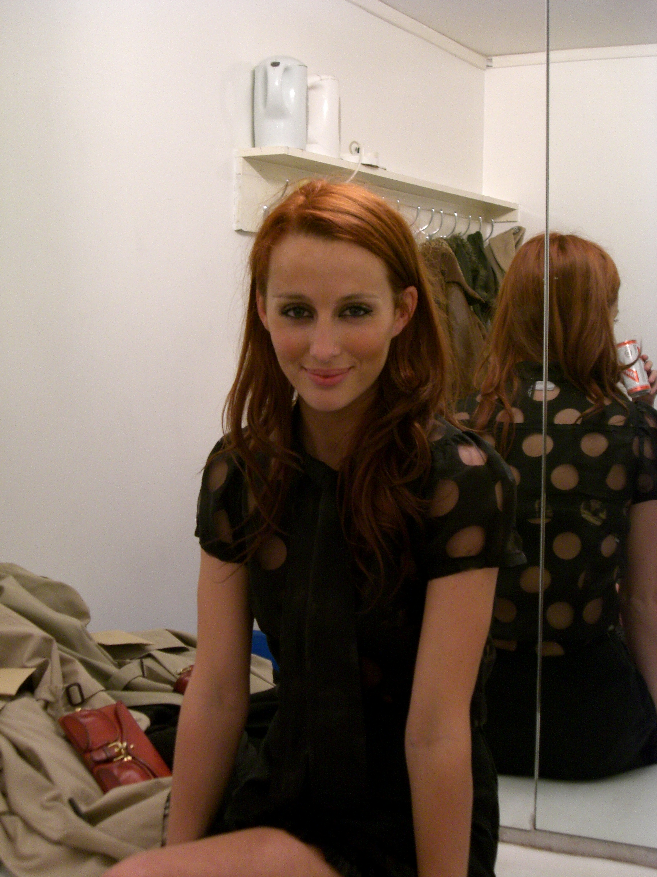 Siobhán Donaghy.